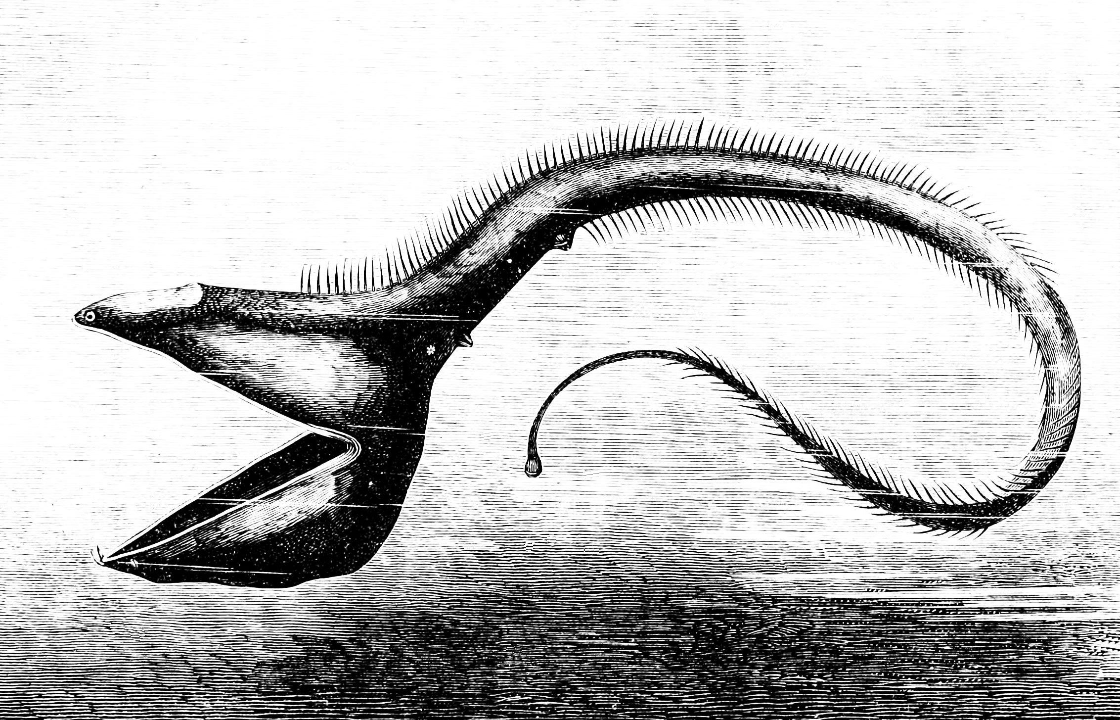 The deep sea fish eurypharynx pelecanoides